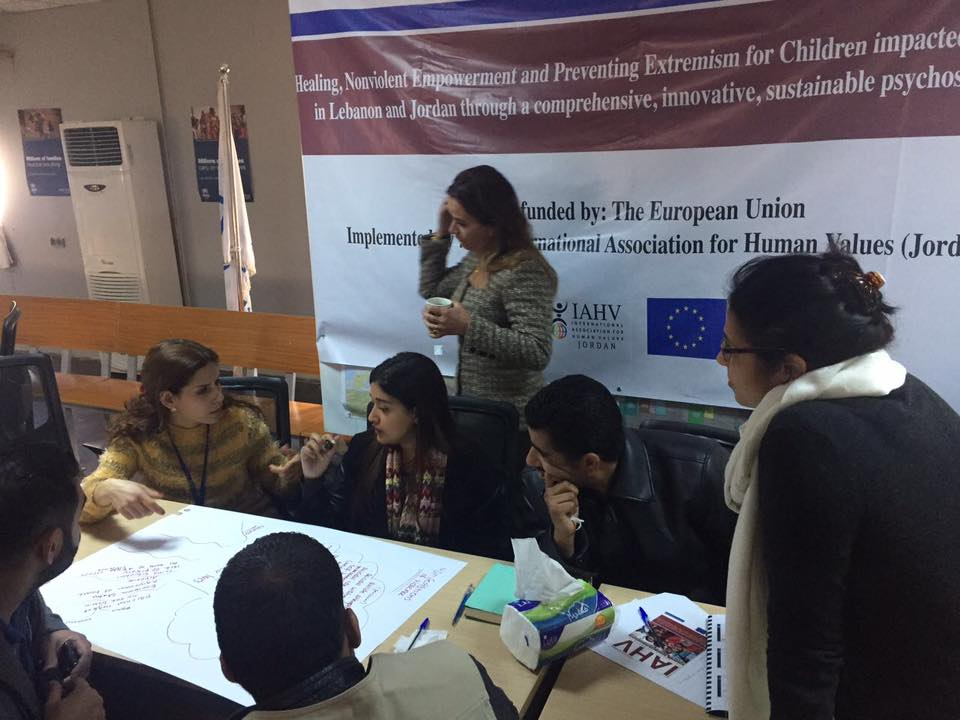 The European Union co-funds the project, "Healing, non violent empowerment and preventing extremism" of the International Association for Human Values, Jordan, at the Zaatari refugee camp to address the needs of the Syrian refugees.